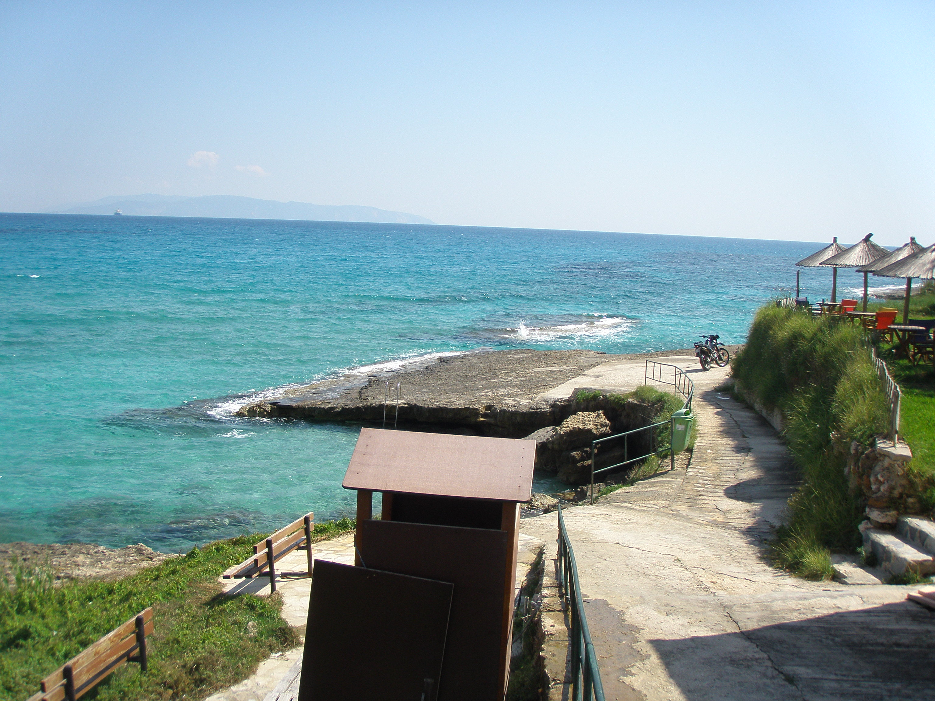 The flat rock beach at Agios Thomas in Karavados village, on the island of Kefalonia, Greece.